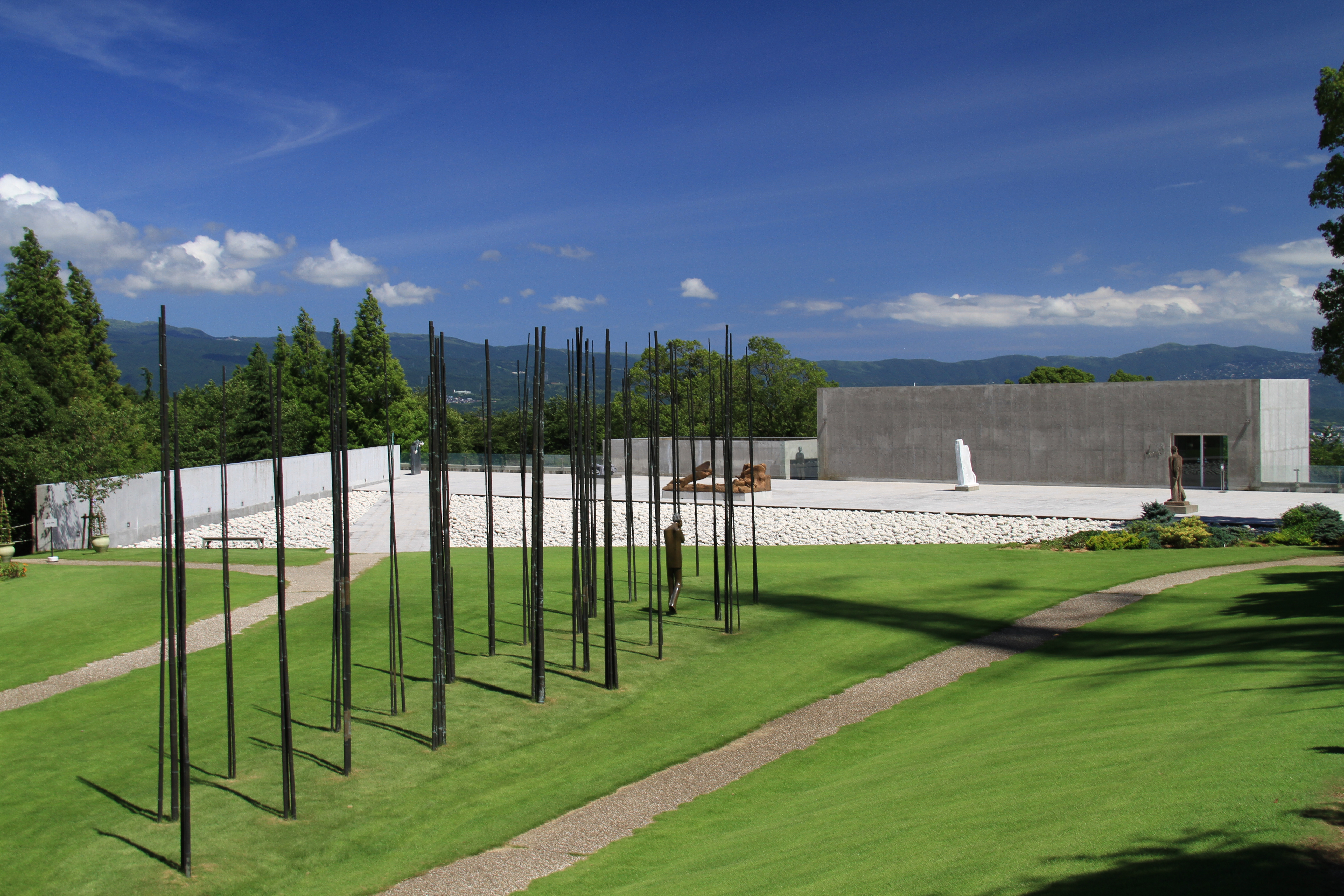 Higashino, Nagaizumi, Sunto District, Shizuoka Prefecture 411-0931, Japan